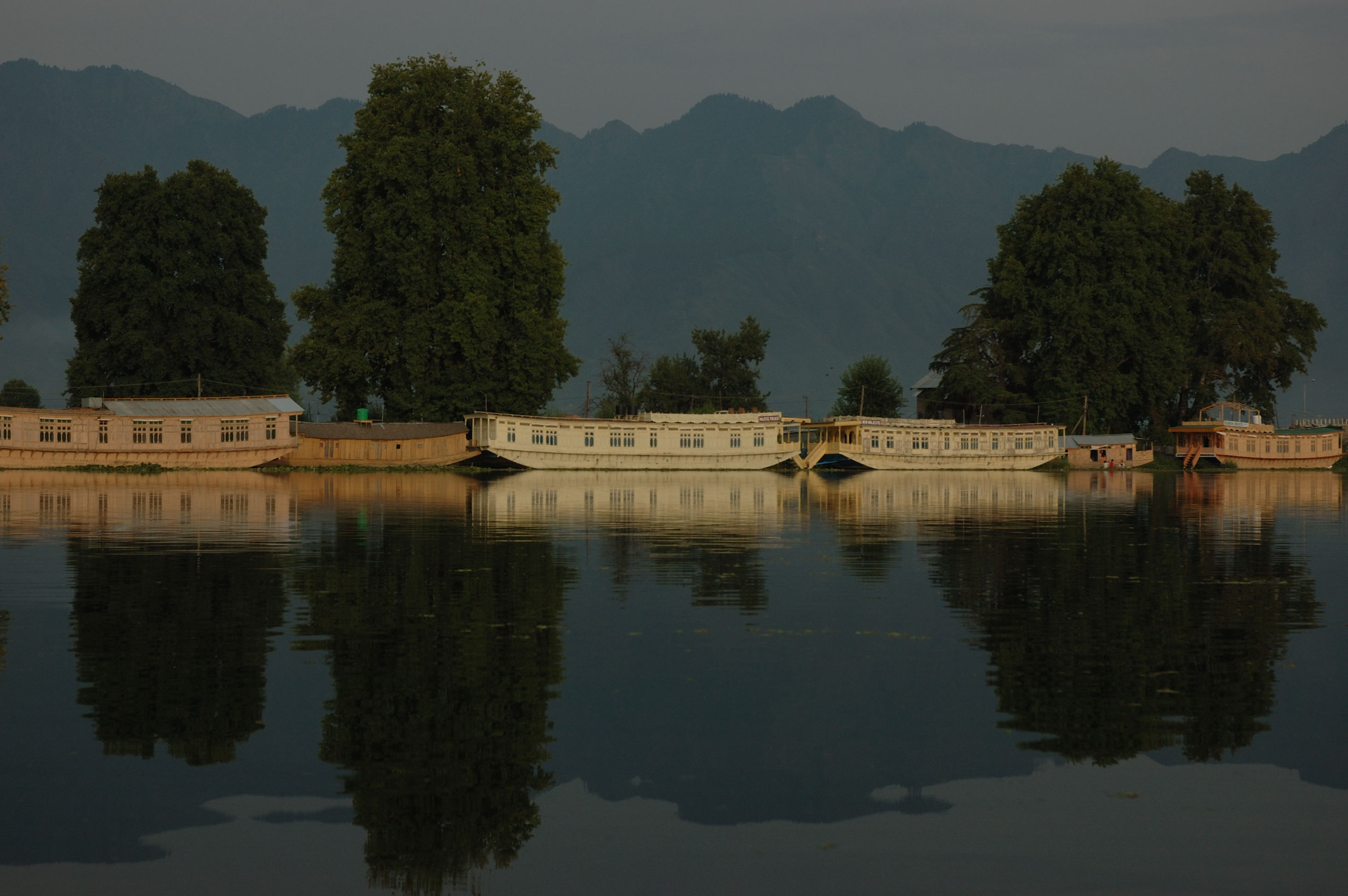 Houseboats moored at the edge of Nageen Lake, Srinagar. I took this photograph from a shikara just before sunset.